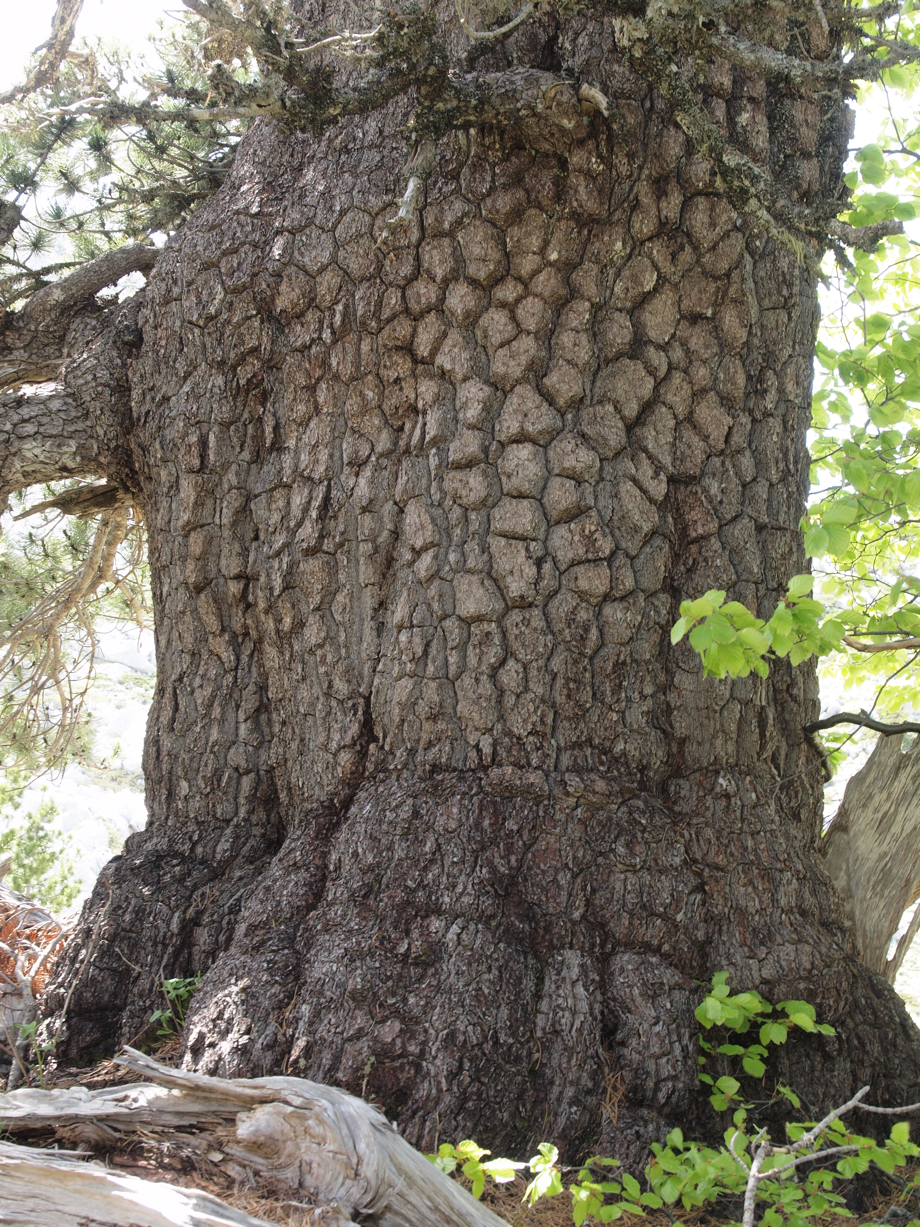 Pinus heldreichii leg P.Cikovac Jastrebica Mt Orjen, Tree is 700 years old